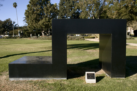 Playground (3/3) Steel; Painted Black, 1962 Location: Beverly Gardens Park, Beverly Hills, CA Documented for the Artist Research Project